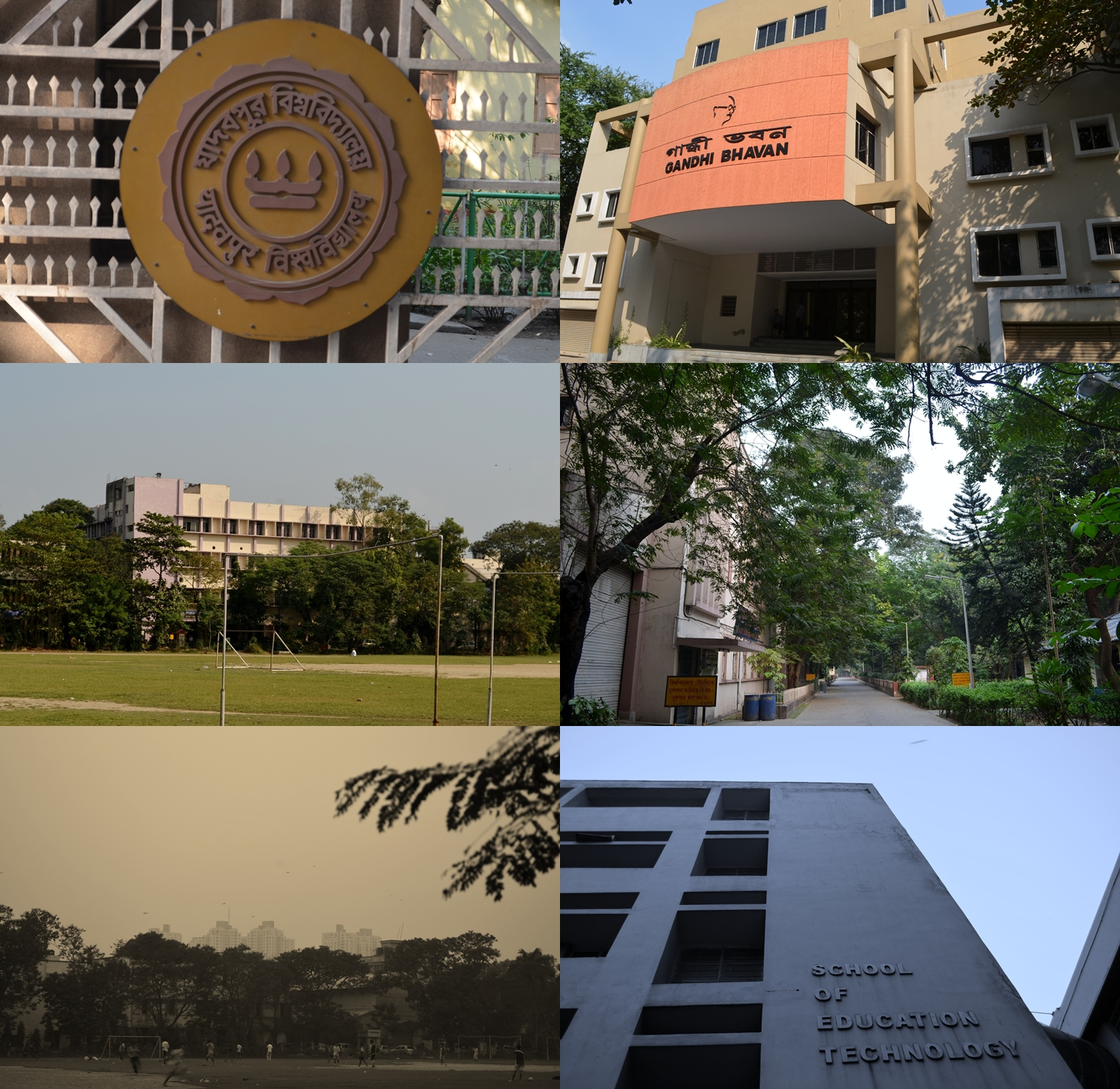 A collage of images from left to reight showing the Logo as seen on the gate of the university, the Gandhi Bhavan auditorium, the Mechanical Engineering Department from a distance, the walk from gate no. 2, the playground at dusk and the School of Education Technology